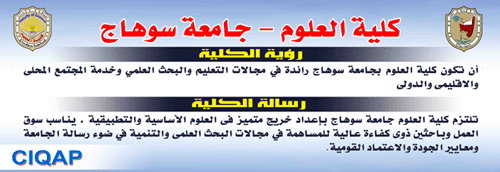 Message of Faculty of science_sohag university